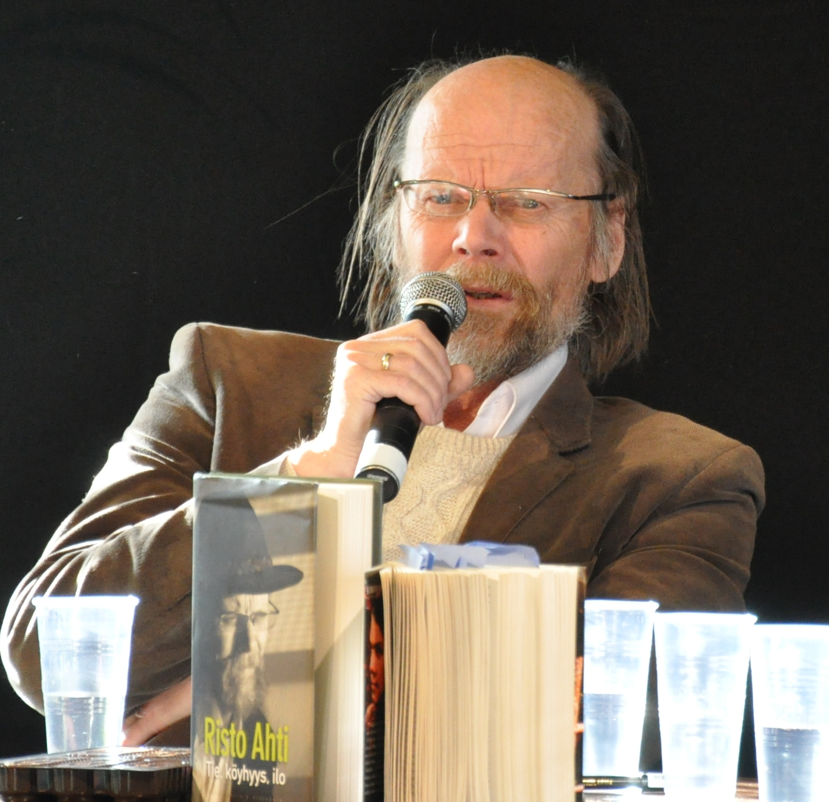 Finnish writer Risto Ahti at the Turku Book Fair 2009.